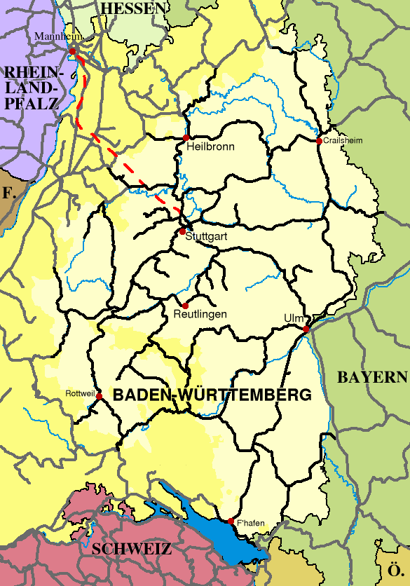 Excerpt of the railway network in Baden-Württemberg as of 2005. The light yellow area is the area of Württemberg until 1945. Black lines indicate railways with public transportation, the red line is the newly built fast track from Mannheim to Stuttgart.